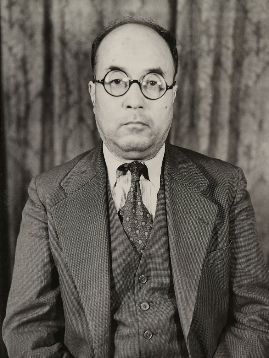 Naoki Hoshino during the trial for war crimes at International Military Tribunal for the Far East